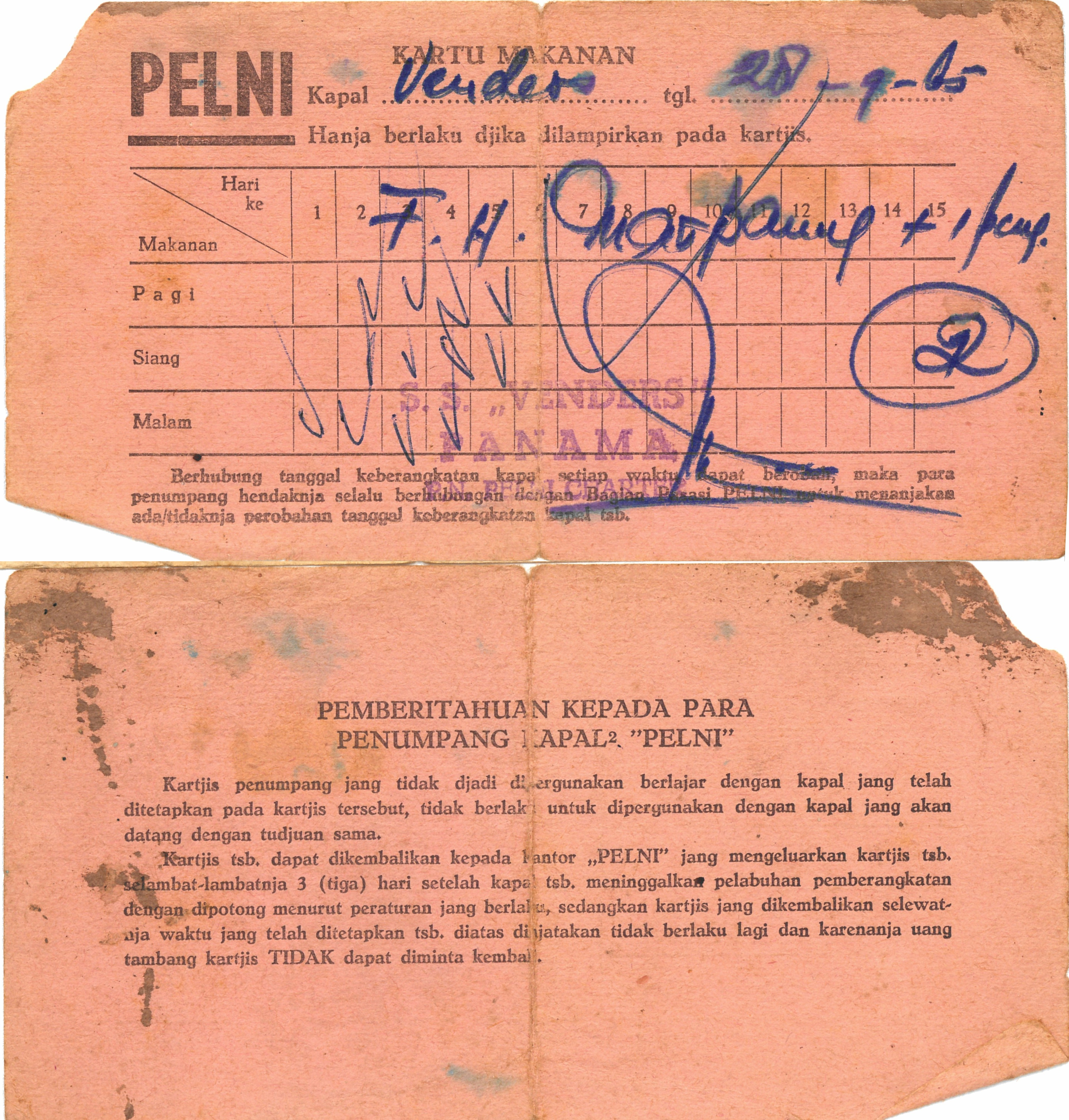 A food rationg card issued by the PELNI (Indonesian National Lines) for TH Marpaung.